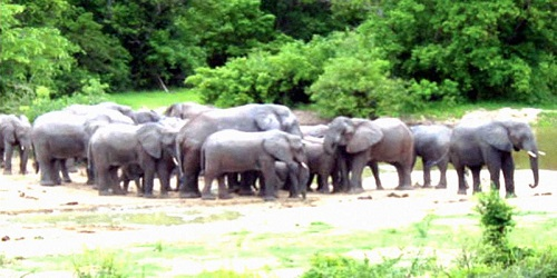 I have snapped the pix during our excursion